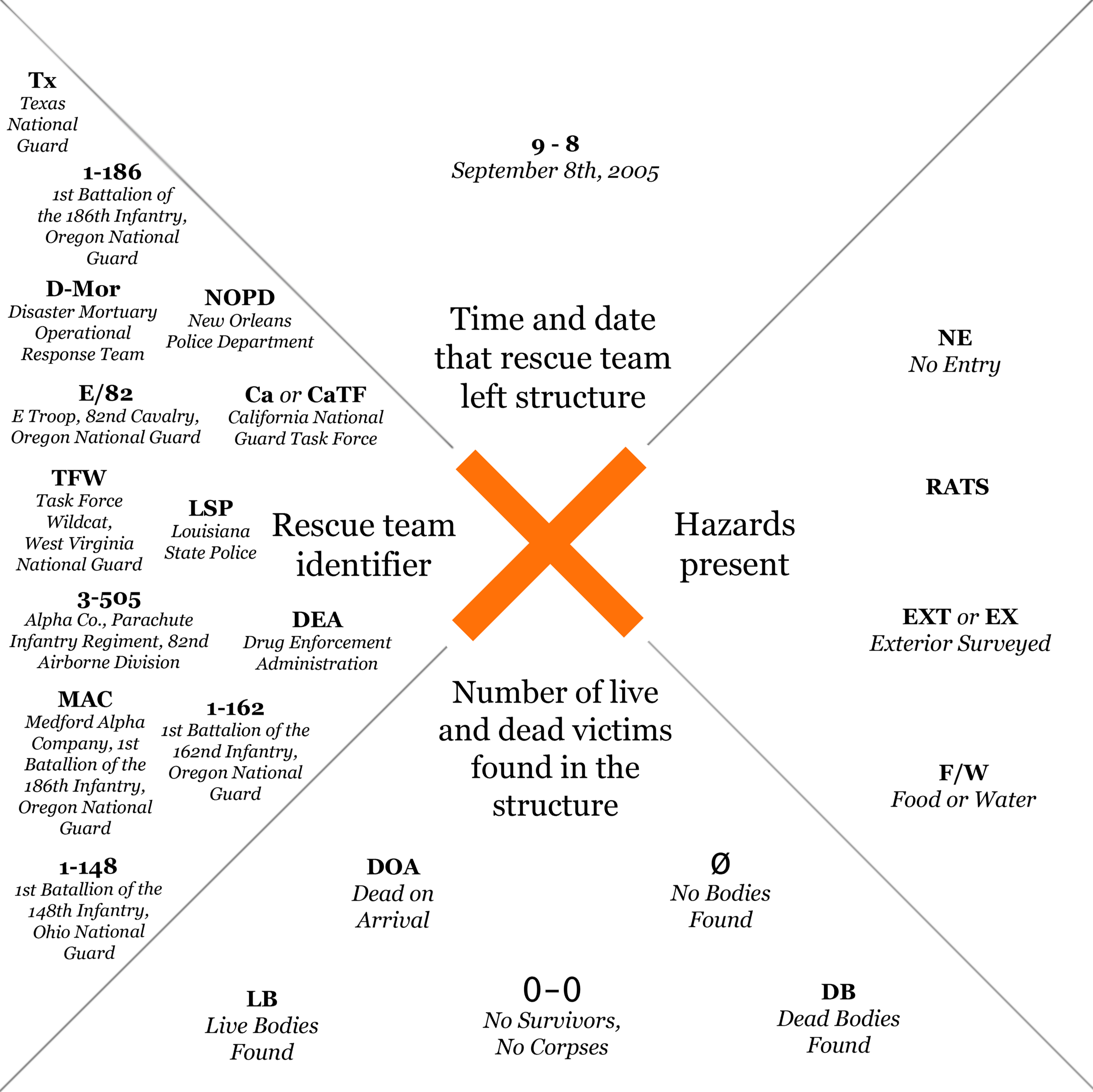 Chart showing common uses of the urban search and rescue cross after Hurricane Katrina.